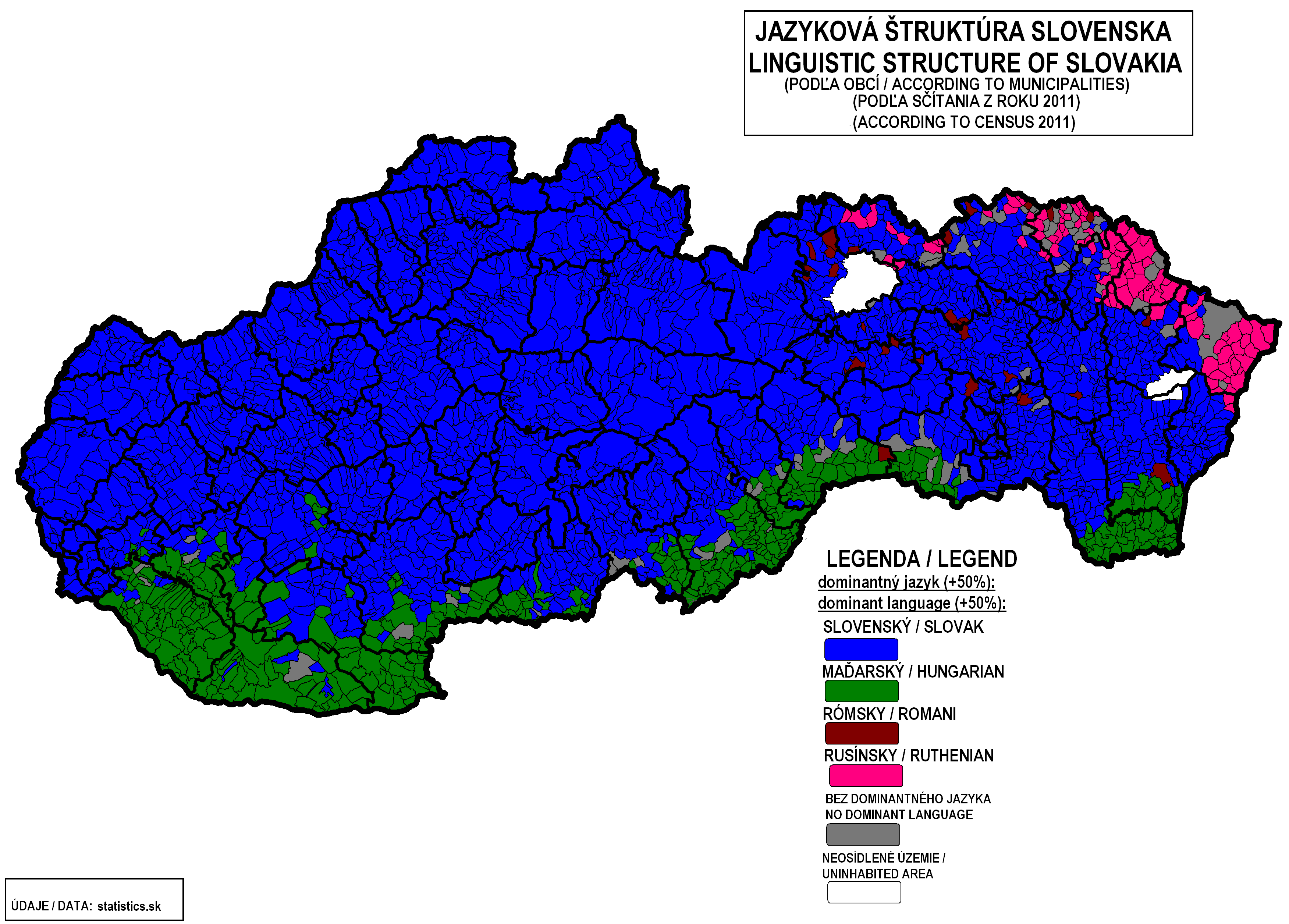 Linguistic structure of Slovakia, according Census 2011.